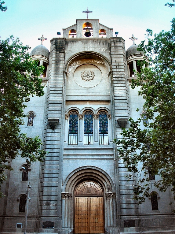 Iglesia de la Unión, Unión, Montevideo, Uruguay. It is devoted to Our Lady of the Miraculous Medal and Saint Augustine.